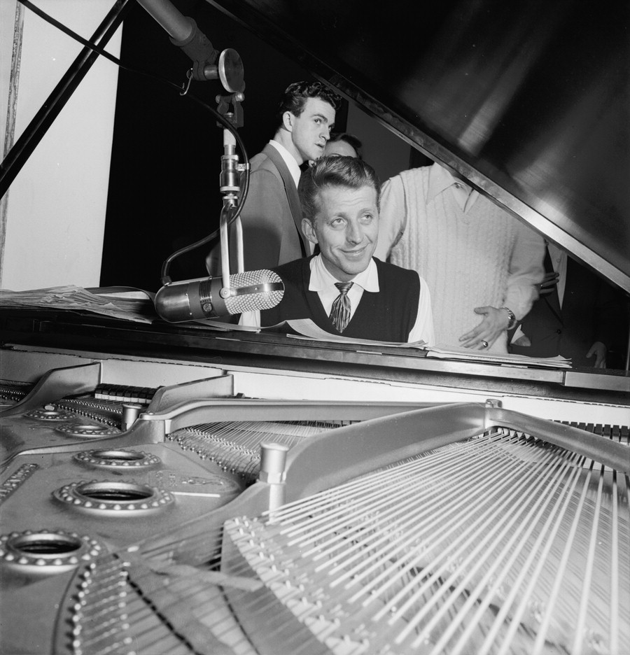 Stan Kenton, Harry Forbes, and Pete Rugolo, Capitol studio, ca. Jan. 1947 (Photograph by William P. Gottlieb)